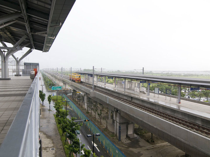 THSR Tainan Station (left) and TRA Shalun Station (right).